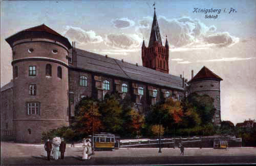 Westside of Königsberg castle - Seen from the Gesecusplatz